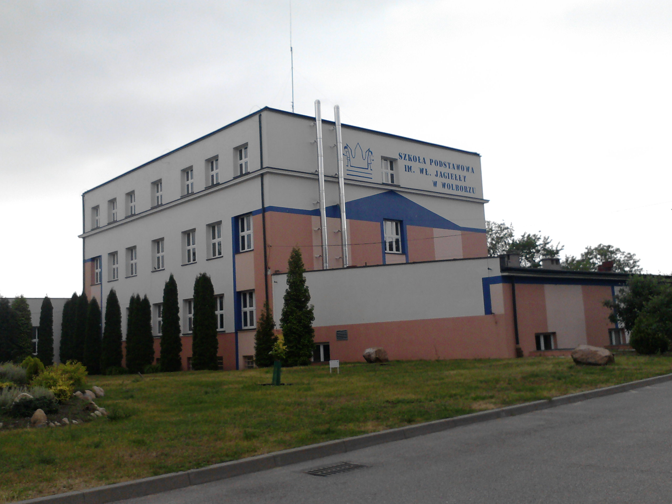 Primary school in Wolbórz